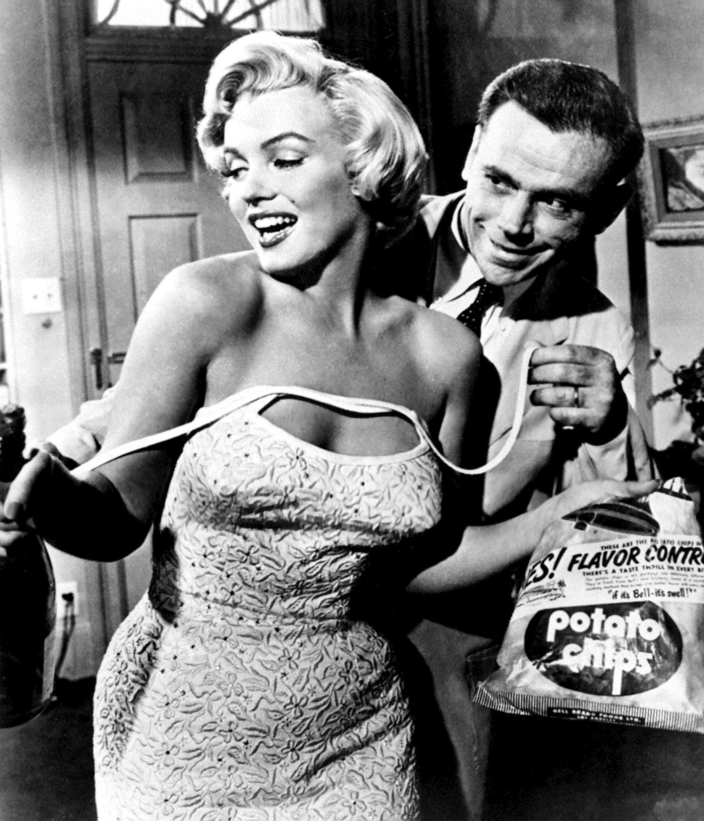 Photo of Marilyn Monroe in Seven Year Itch from the September 1955 issue of Screenland Plus TV-Land magazine Note this is a larger, better quality copy of the photo seen in Sceenland Plus TV-Land, page 8.. A renewal search was done at using the title Screenland Plus TV-Land. There were no listings for the publication; there's no evidence of continued copyright on the magazine.